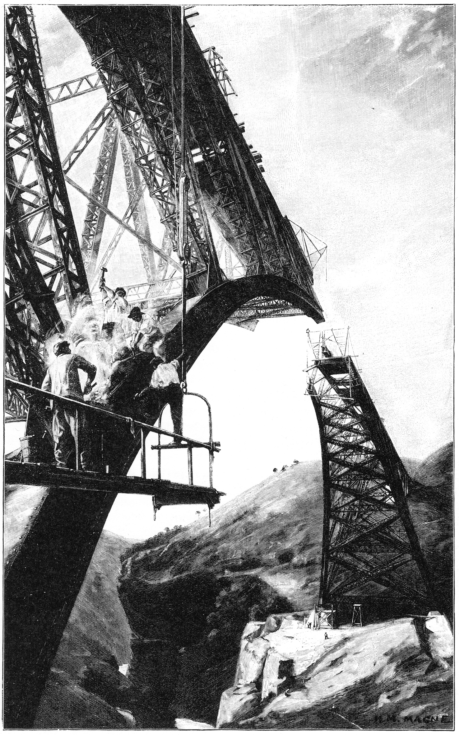 Gravure by an unknown engraver after the painting by Henri-Marcel Magne. Magne let inspire himself to his work "Construction d’un viaduc" by the construction of the Viaur Viaduct.